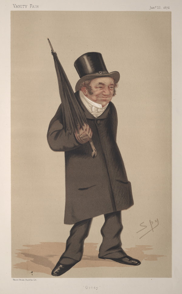 Men of the Day No.121: Caricature of The Rev Charles Old Goodford DD. Caption reads: "Goody"